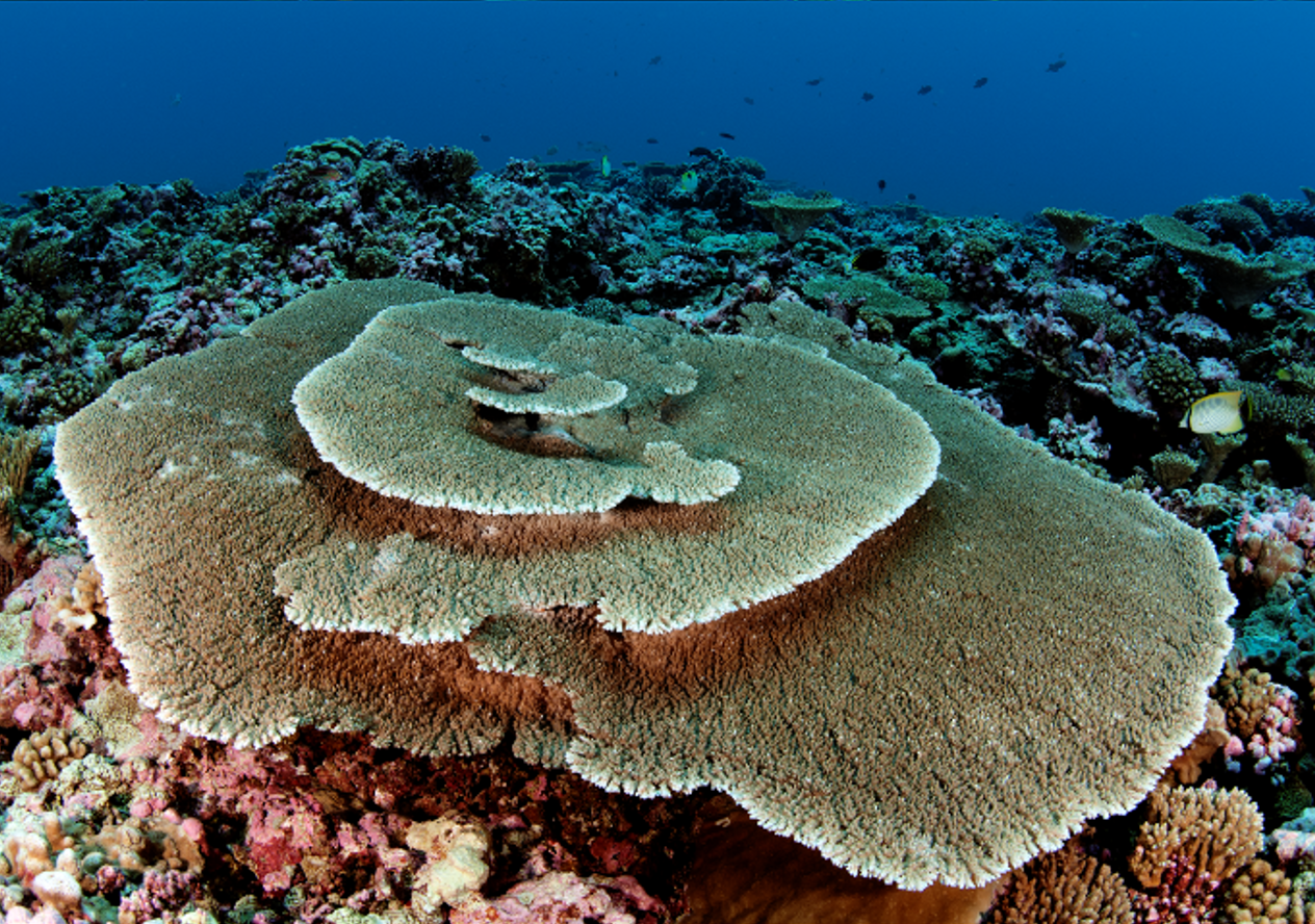 Kingman’s forereef habitat, where plating and branching Acropora corals dominate at 10 m, while massive Porites characterize the deeper depths. Photo credit: Enric Sala G.